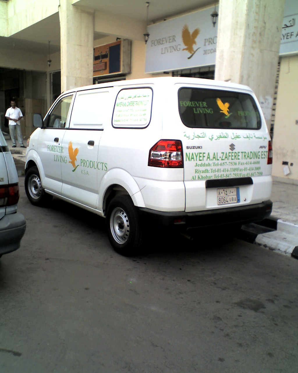 Forever Living Products Jeddah Branch